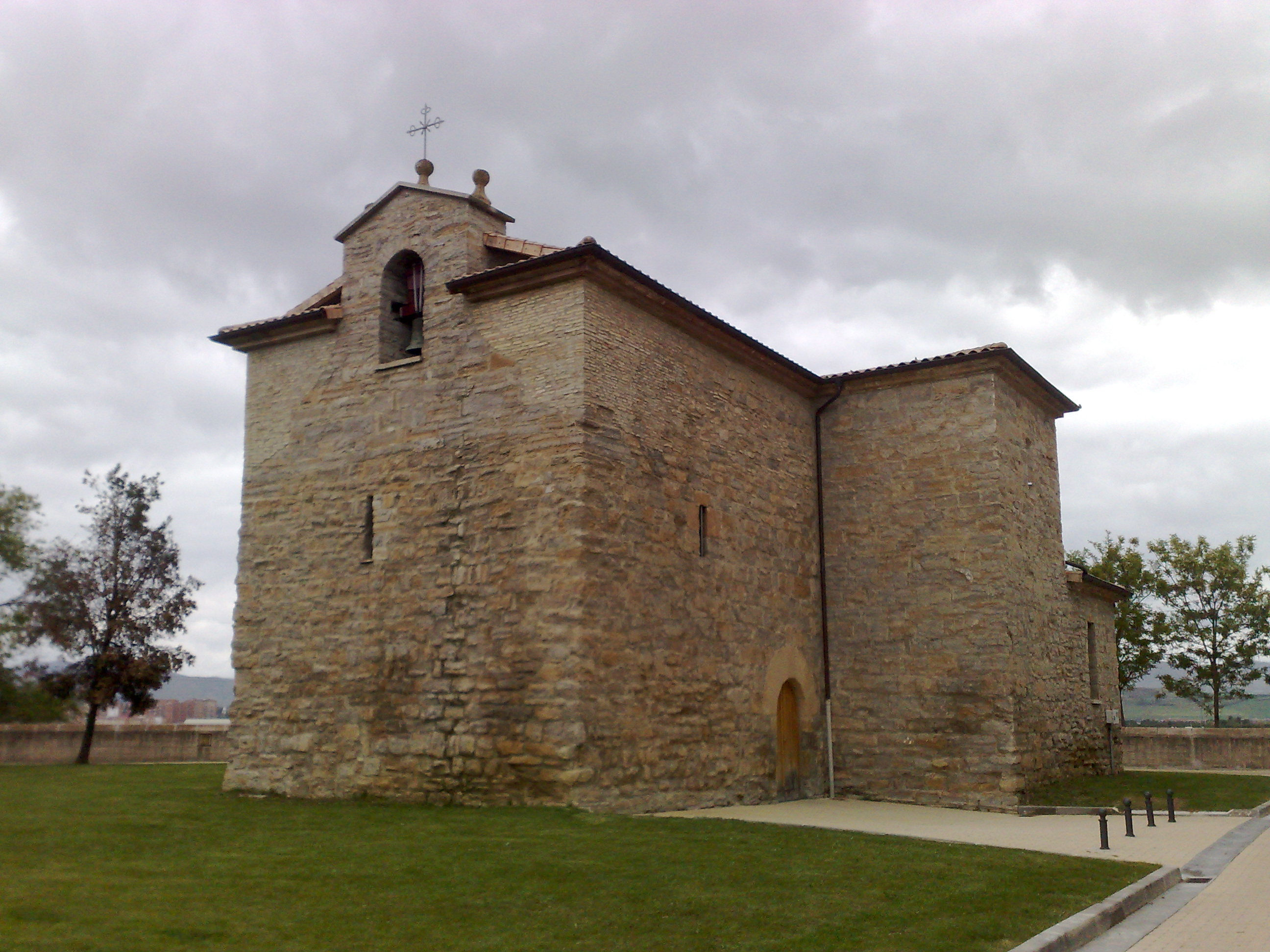 Church of Done Kosme and Damian, Cordobilla, Galar, Navarre, Basque Country.